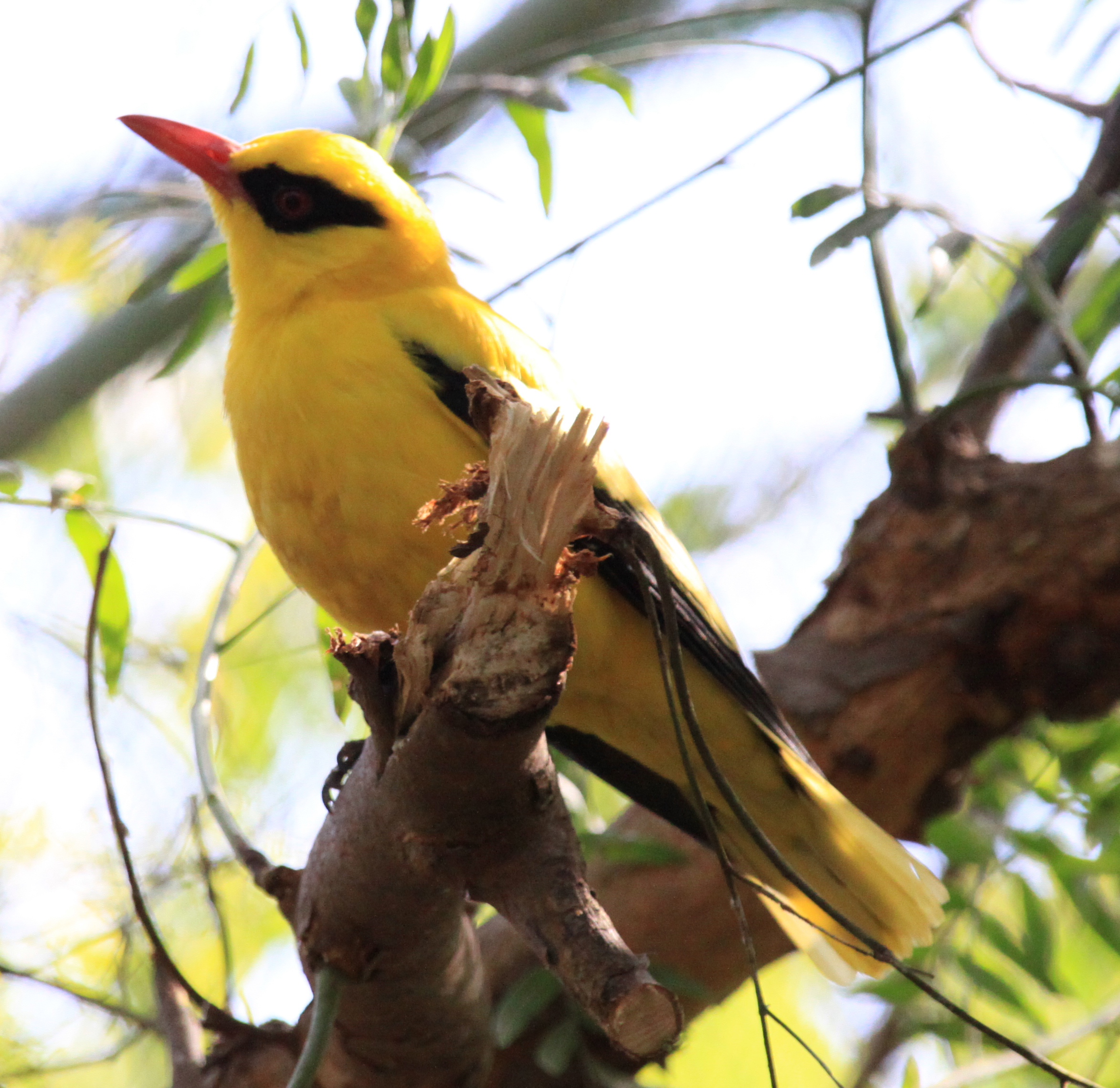 Captive African Golden Oriole Oriolus auratus, Oasis Park Zoo, Fuerteventura, Canary Islands